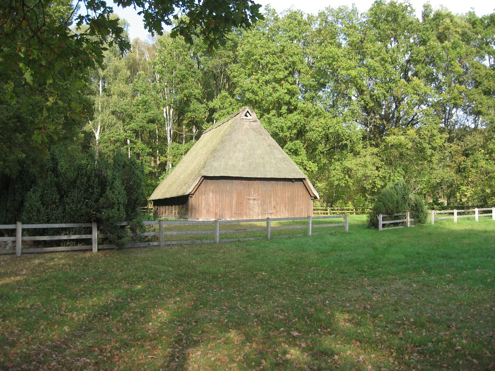 Schafstall at Otter